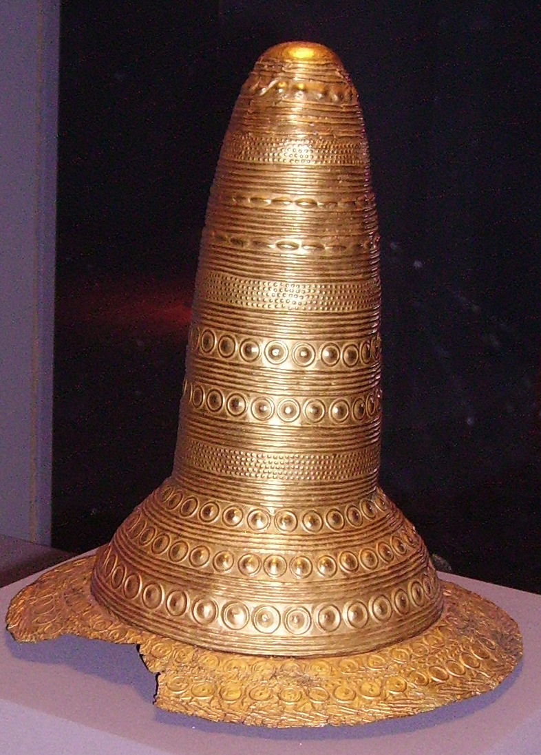 Schifferstadt, Germany